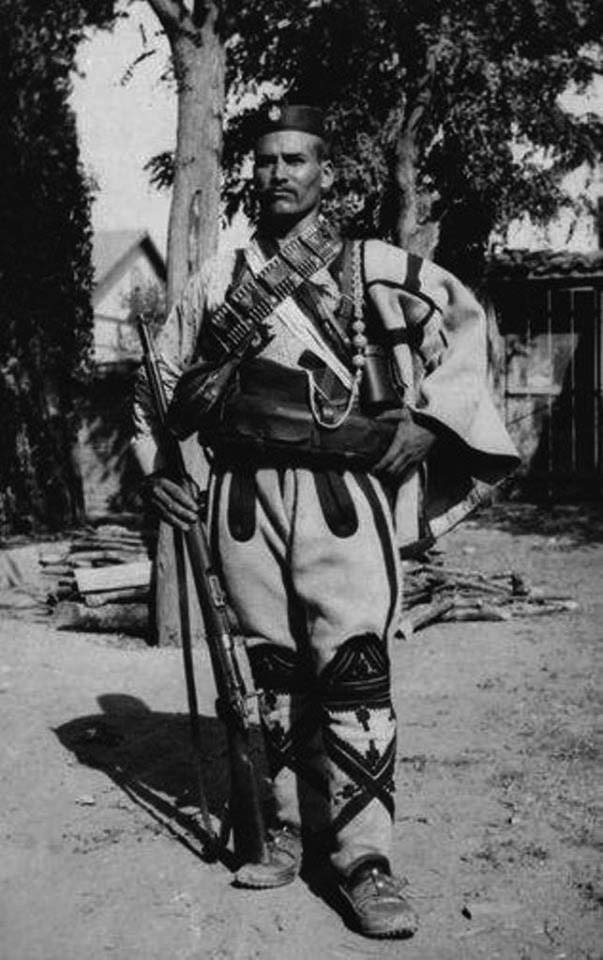 Petko Ilić in Bitola, 1908. Original photography taken during the Hurriyet.